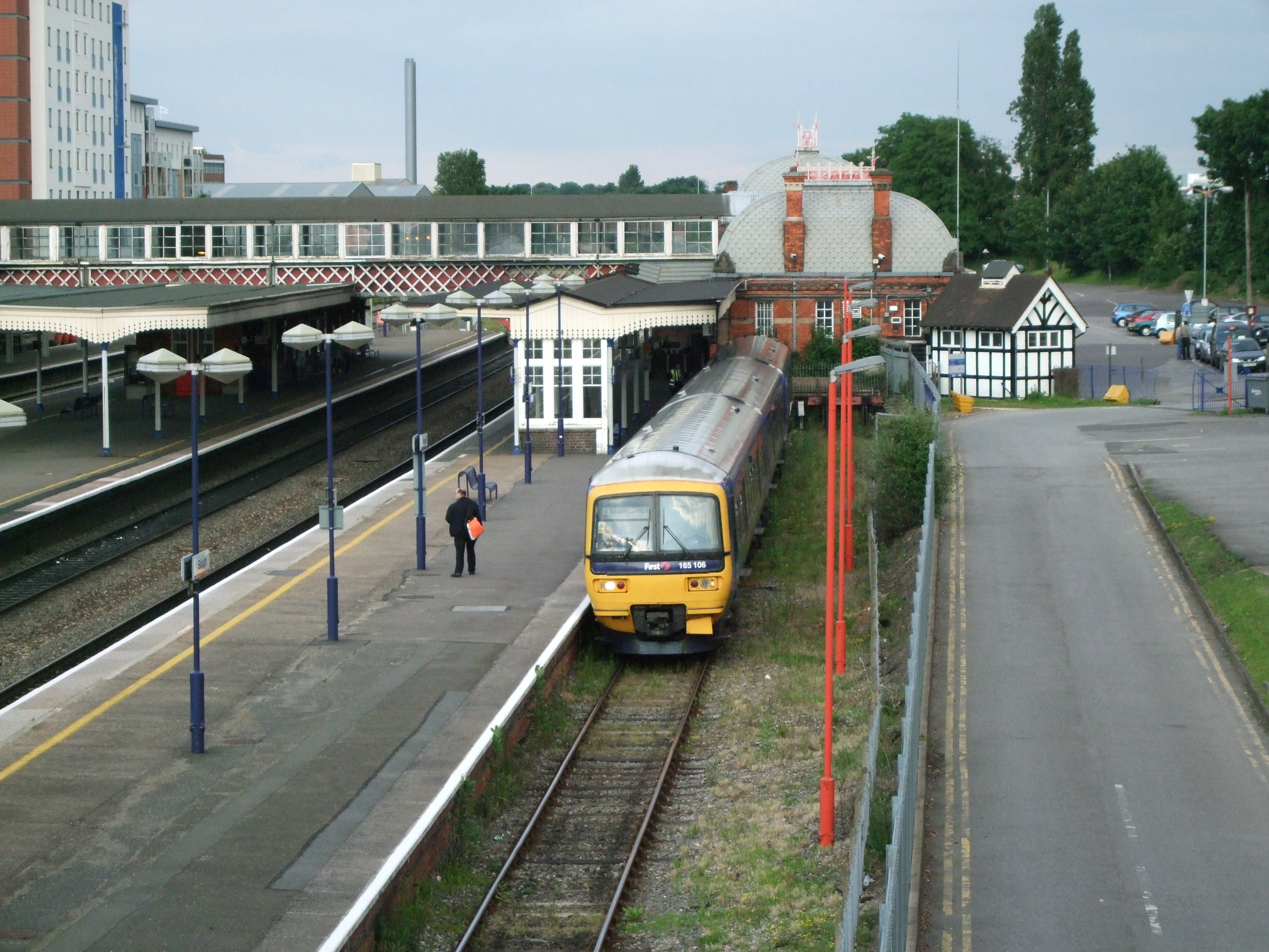 Class 165 ready to depart for Windsor